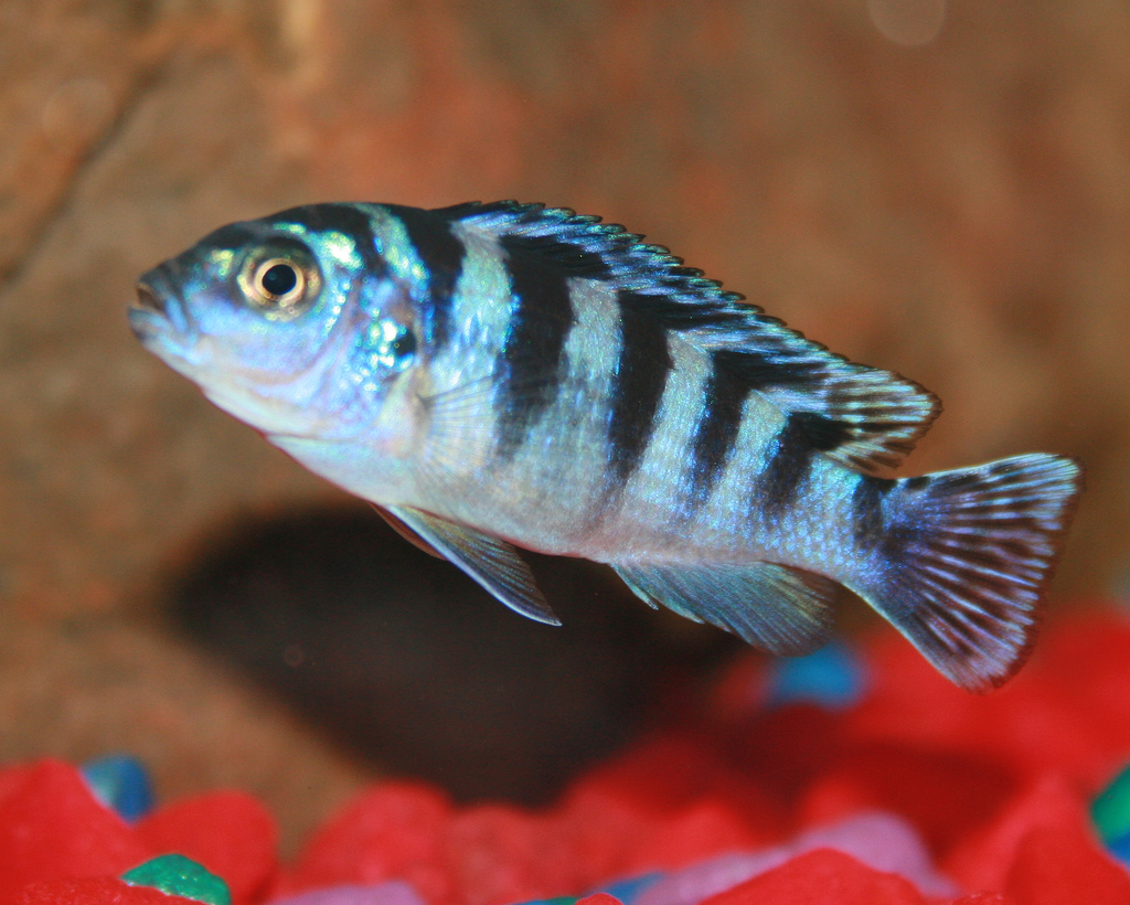 CC Attribution 2.5 rtisbute - Steven Viemeister Category:Cichlid images